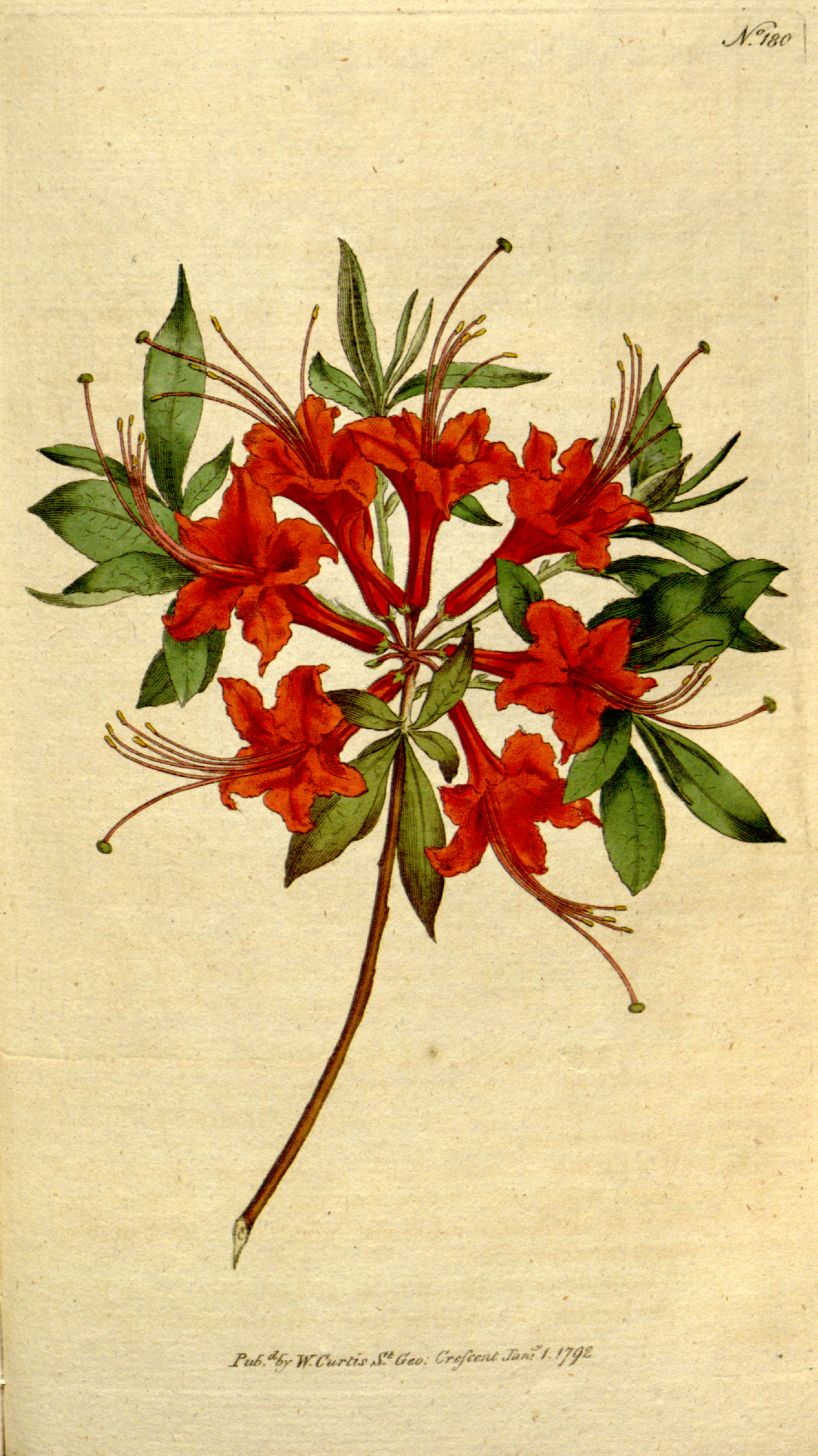 Azalea nudiflora var. coccinea (= Rhododendron calenduaceum). This is a plate from The Botanical Magazine, Volume 5.